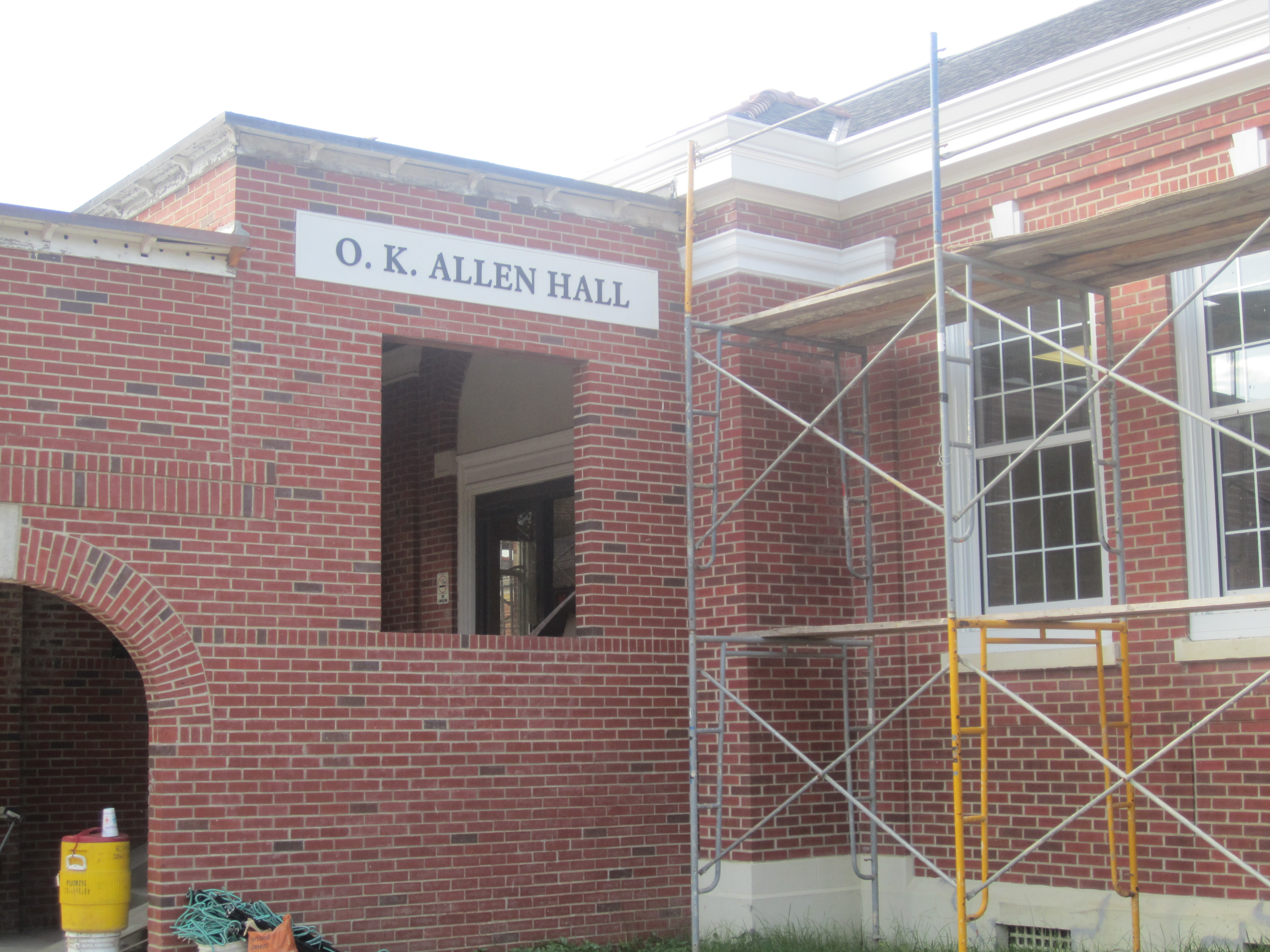 I took photo of O.K. Allen Business Administration Bldg. at ULL (under renovation) in Lafayette, LA, with Canon camera.